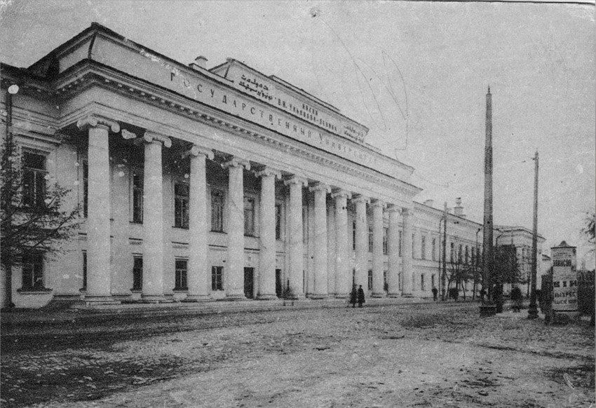 An image of the State University of Kazan as it appeared before the abolition (1928) of the arabic script's use in the Tatar language.